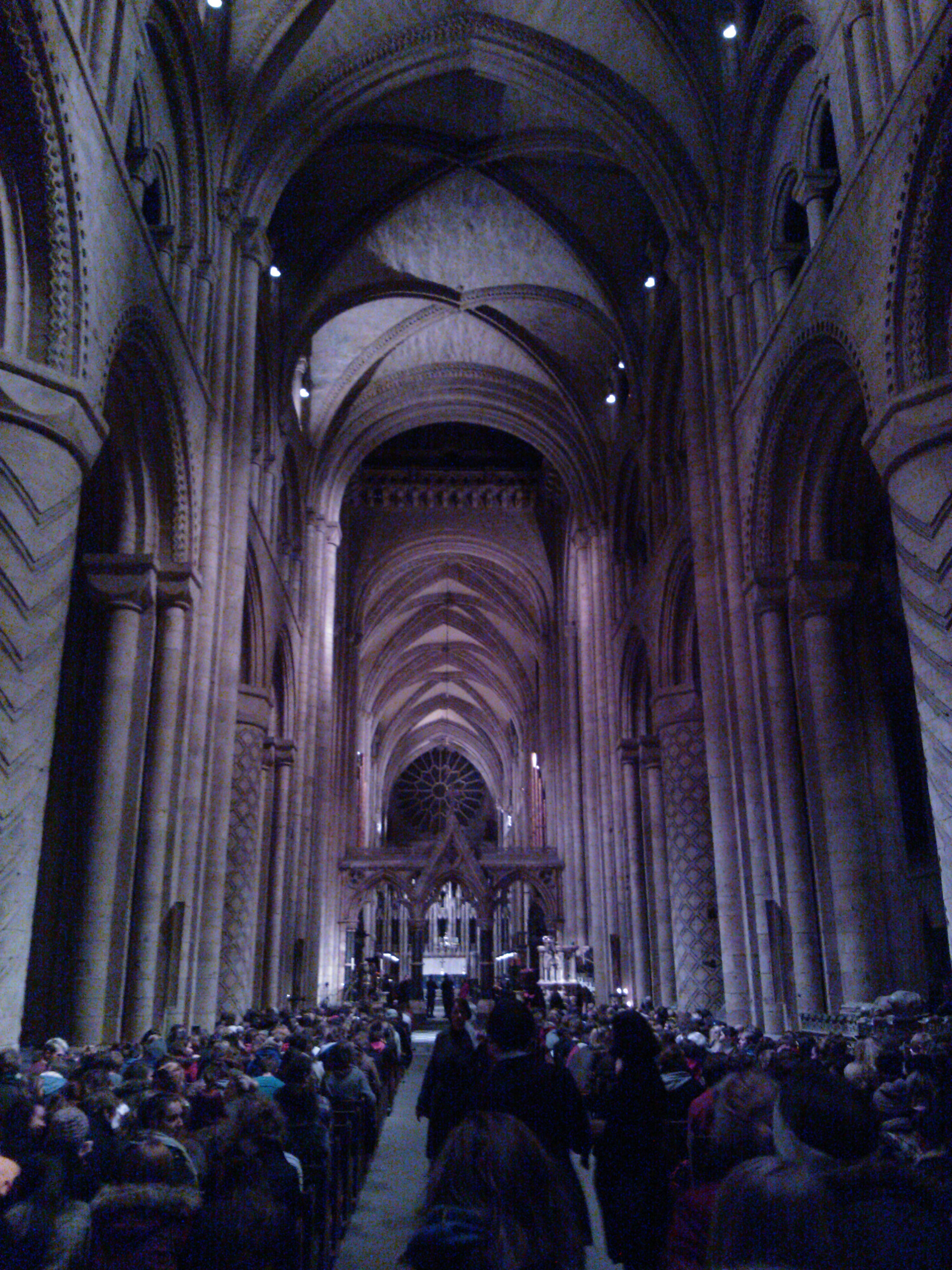 The Carol Service hosted by Durham Inter-Collegiate Christian Union in Durham Cathedral at the end of the Michaelmas Term 2012.